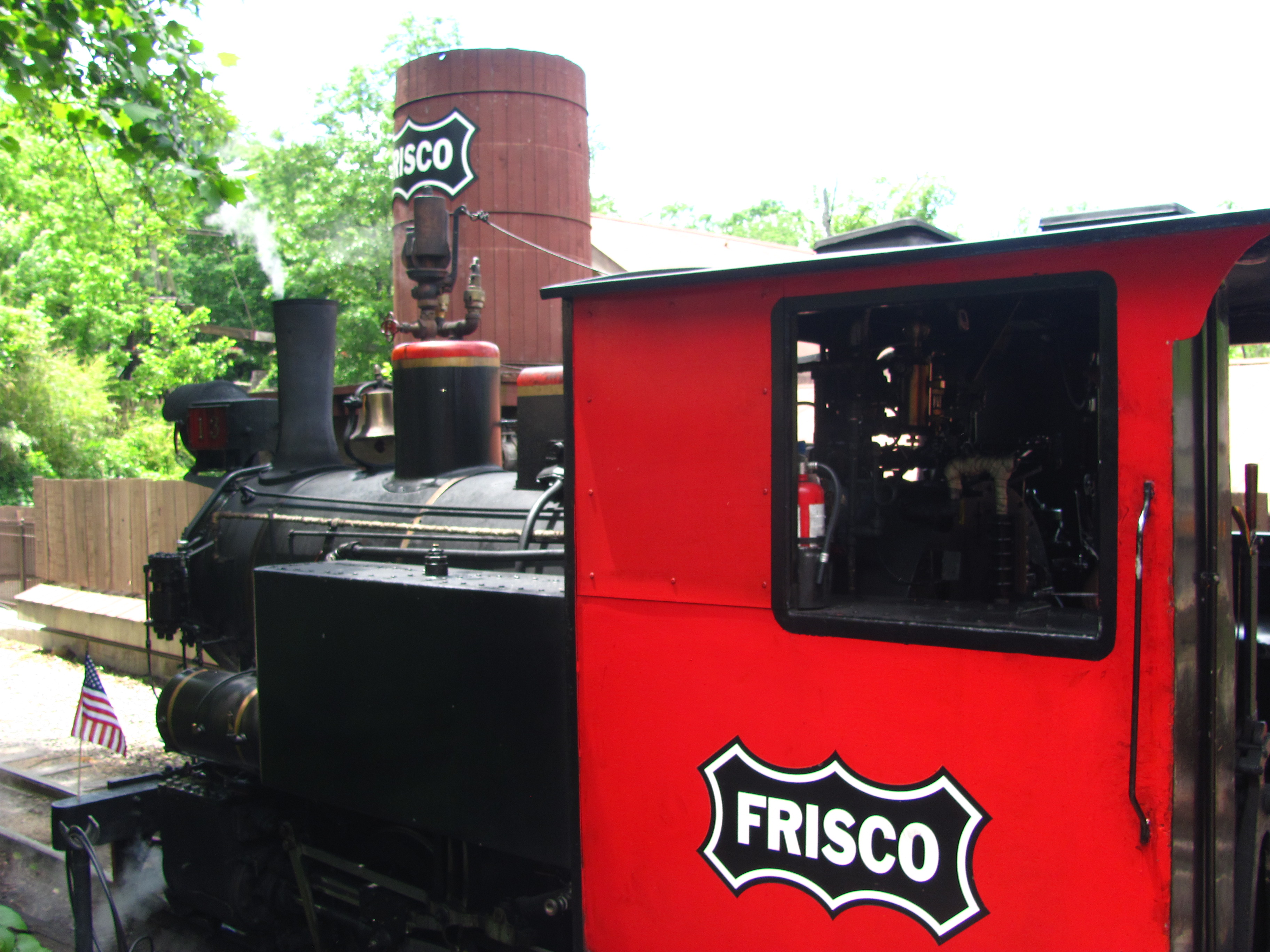 Frisco Silver Dollar Line Steam Train